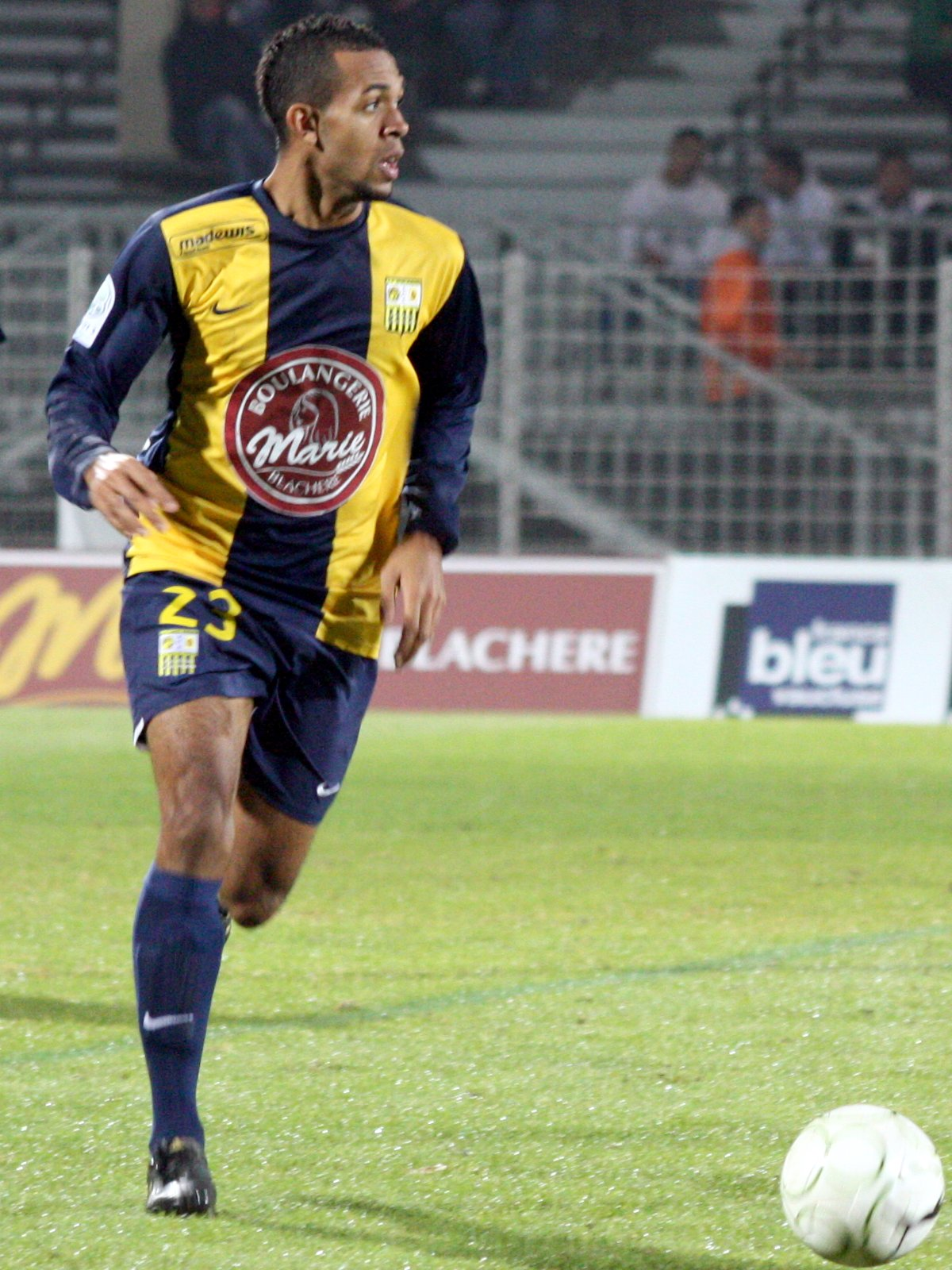 Marvin Esor, player of AC Arles Avignon